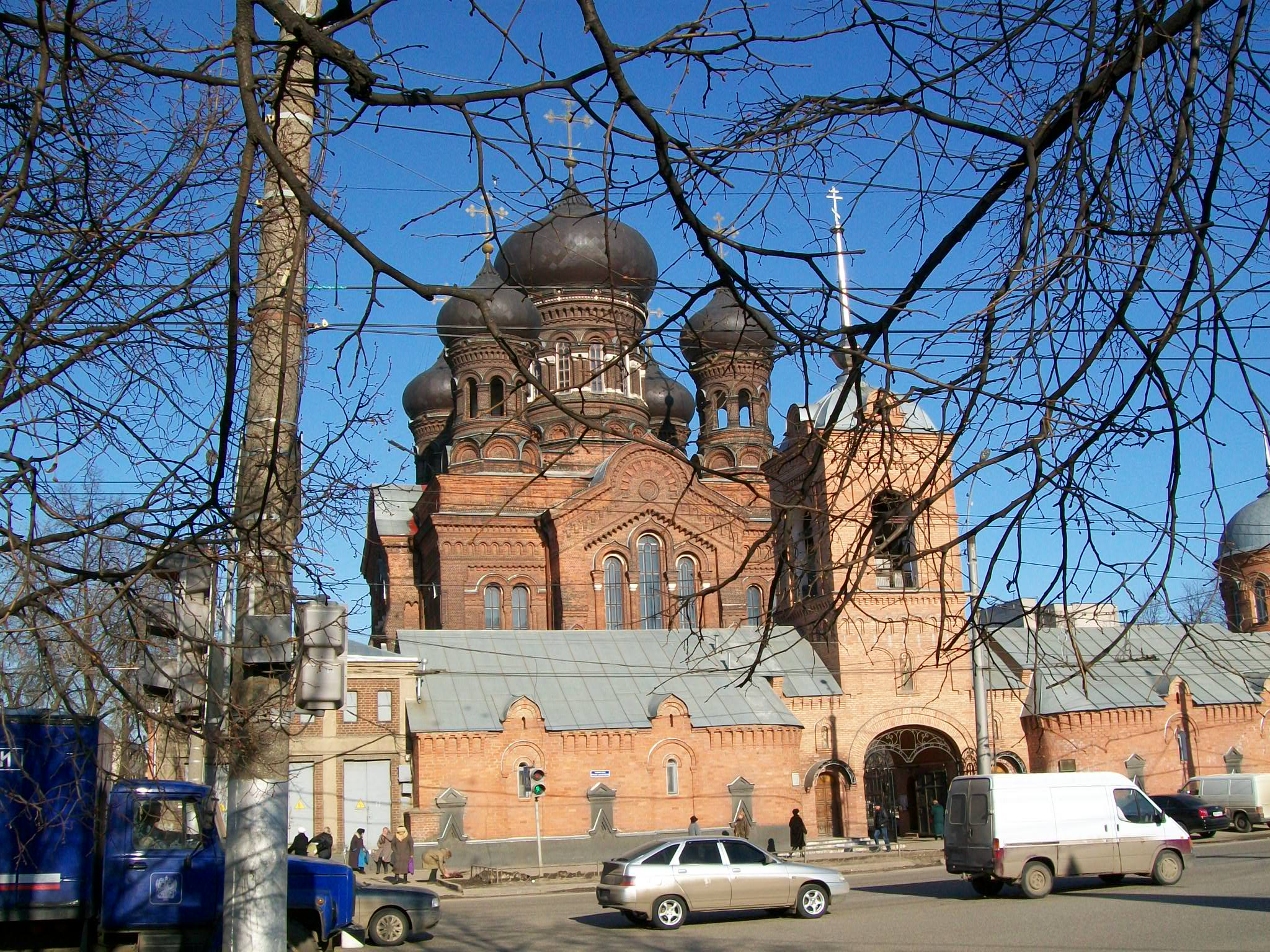 Ivanovo. The Piously-Vvedensky female monastery